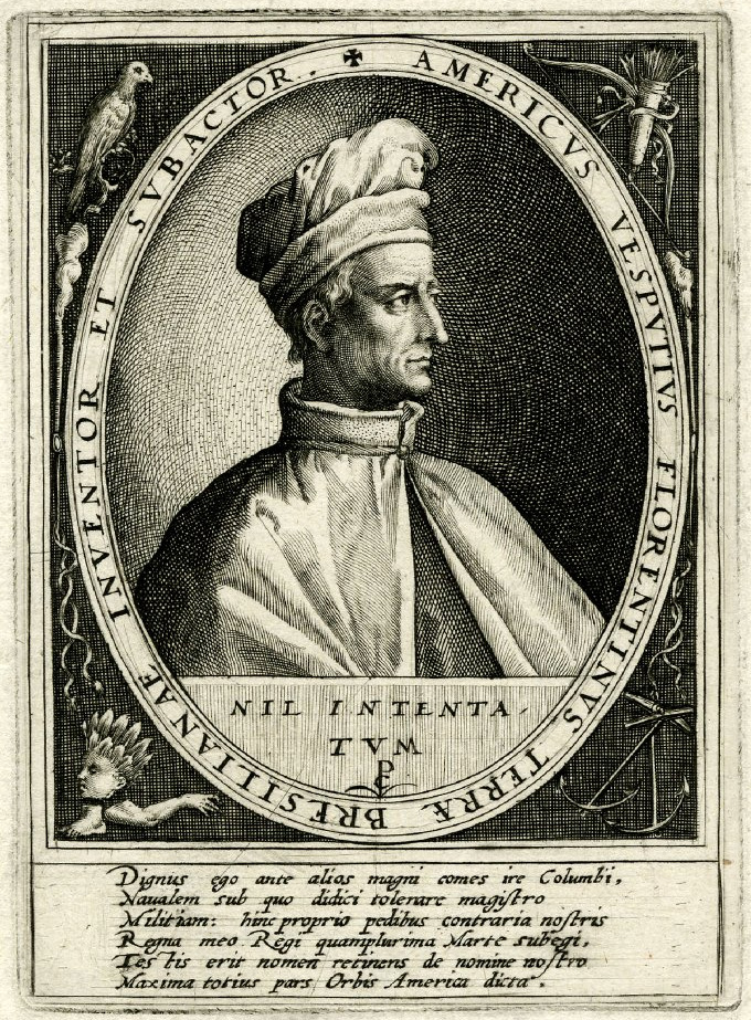 Portrait of Florentine explorer Amerigo Vespucci in a turban. Print by Crispijn van de Passe the Elder. The legend around the portrait says "AMERICVS VESPVTIVS FLORENTINVS TERRAE BRESILIANAE INVENTOR ET SUBACTOR", which means "Amerigo Vespucci, from Florence, discoverer and conqueror of the land of Brazil".